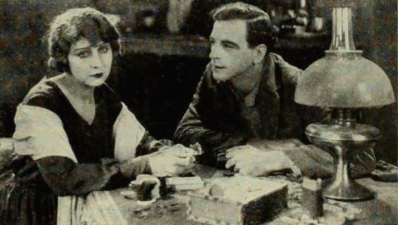 Still from the American film The Woman Who Walked Alone (1922) with Dorothy Dalton and Milton Sills, page 63 of the August 1922 Photoplay.